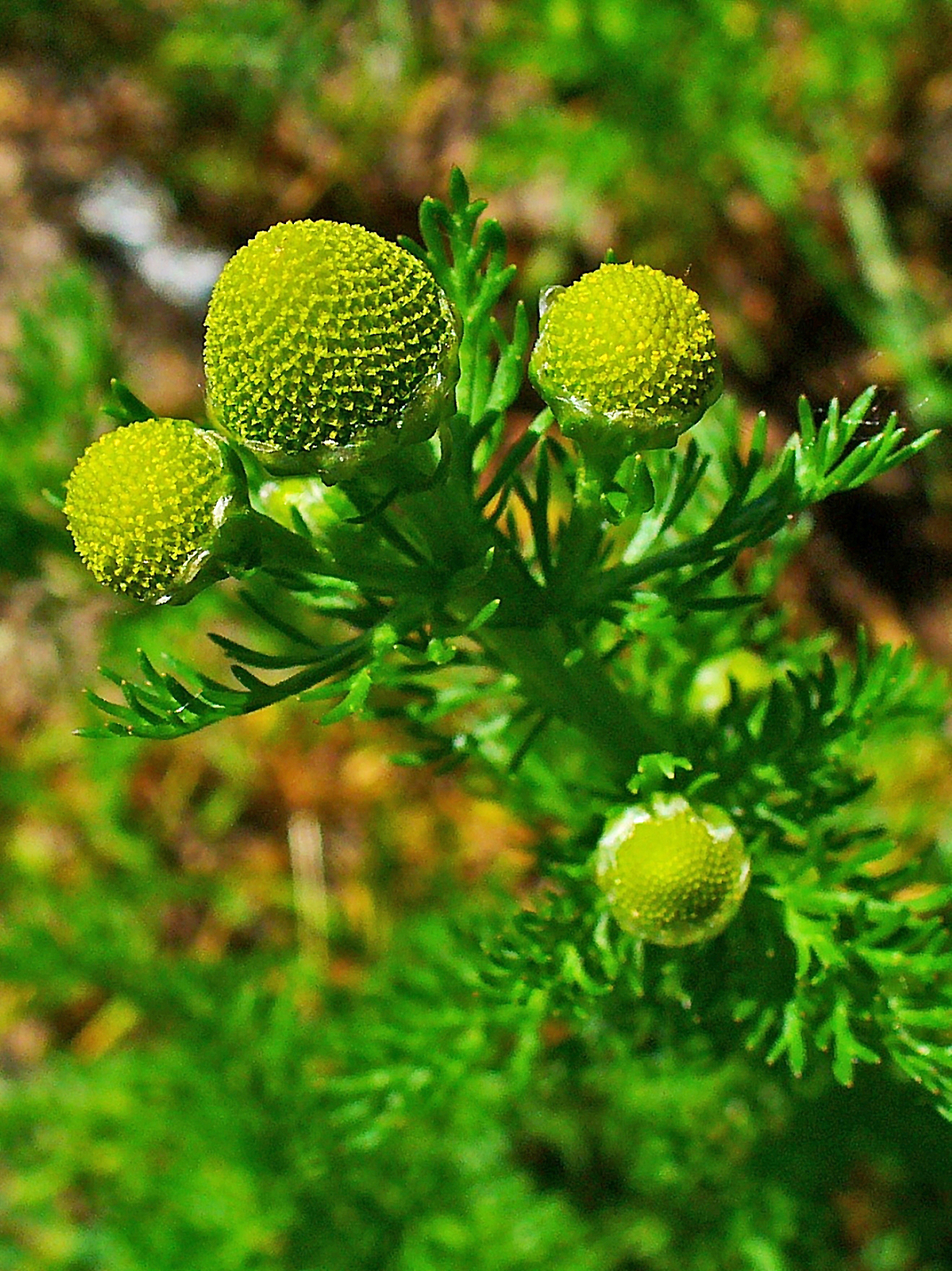 Matricaria discoidea, Asteraceae, Pineapple Weed, Disc Mayweed, inflorescences; Karlsruhe, Germany.